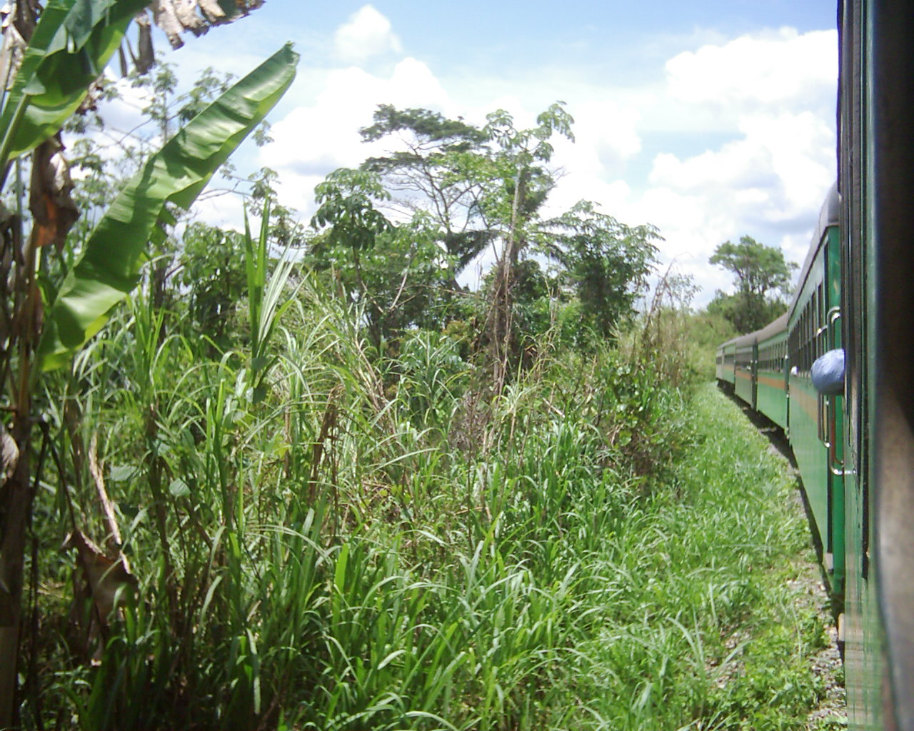 Railway between Kinshasa and Matadi